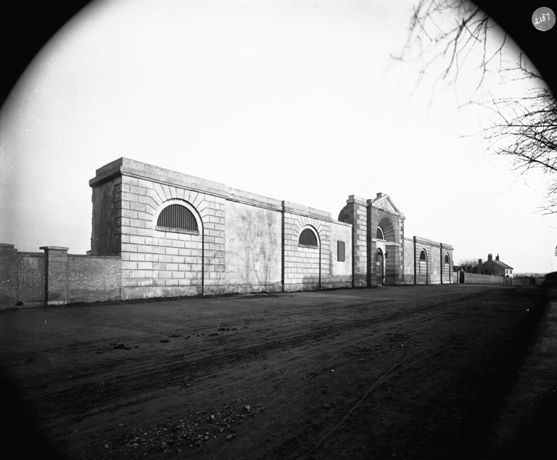 View of the Old Gaol, front in Southgate Street, Bury St Edmunds, Suffolk. Courtesy of the Spanton Jarman Collection, Bury St Edmunds Past and Present Society